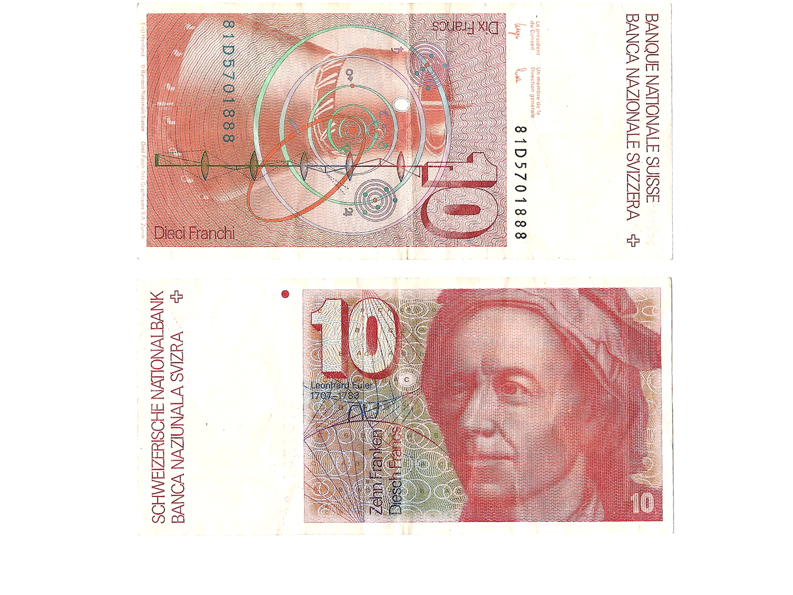 ancien billet suisse de 10 francs